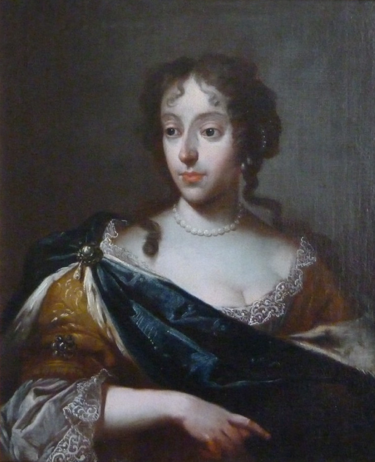 Portrait of Princess Henriette Adelaide of Savoy (1636-1676)